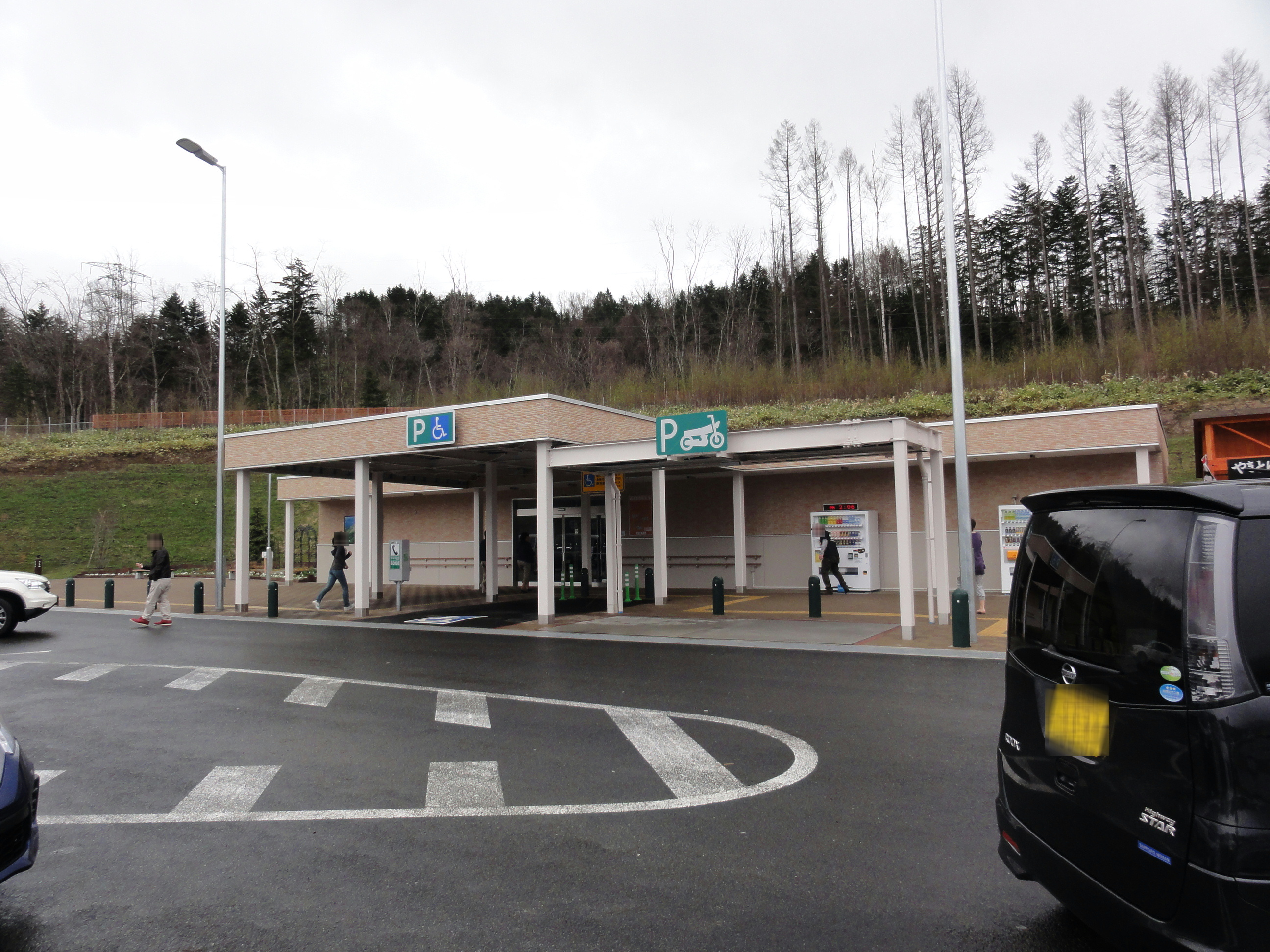 Dōtō Expressway Shimukappu Parking Area